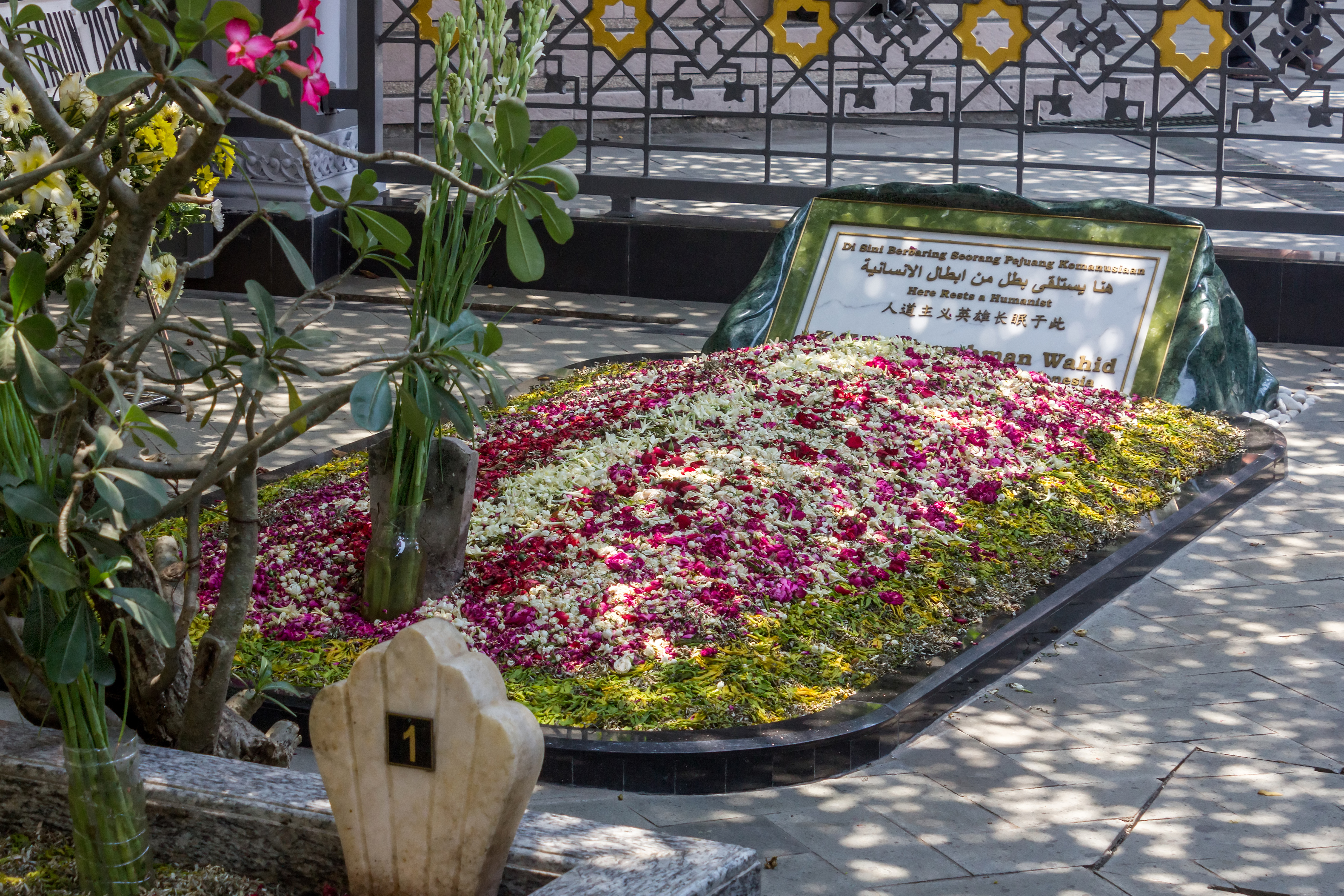 Grave of Abdurrahman Wahid, Jombang, 2017-09-19